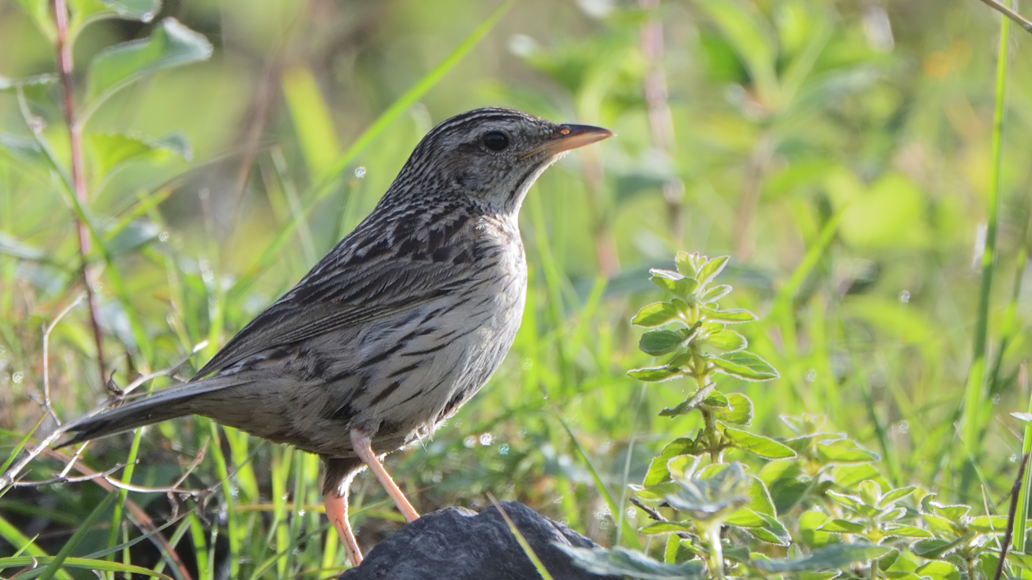 Upland Pipit (Anthus sylvanus) from Suwakholi, Uttarakhand, India